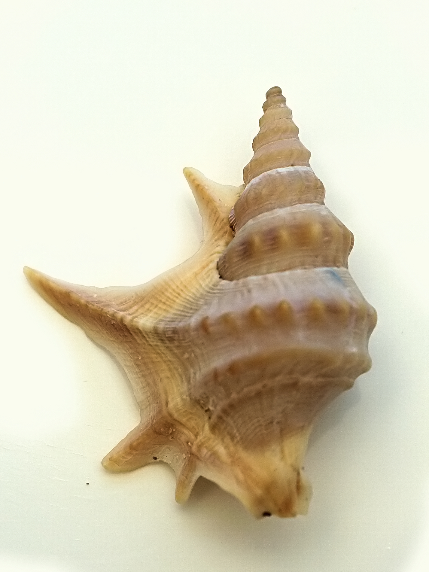 Common pelican's foot collected near Riumar, Baix Ebre, Catalonia, Spain